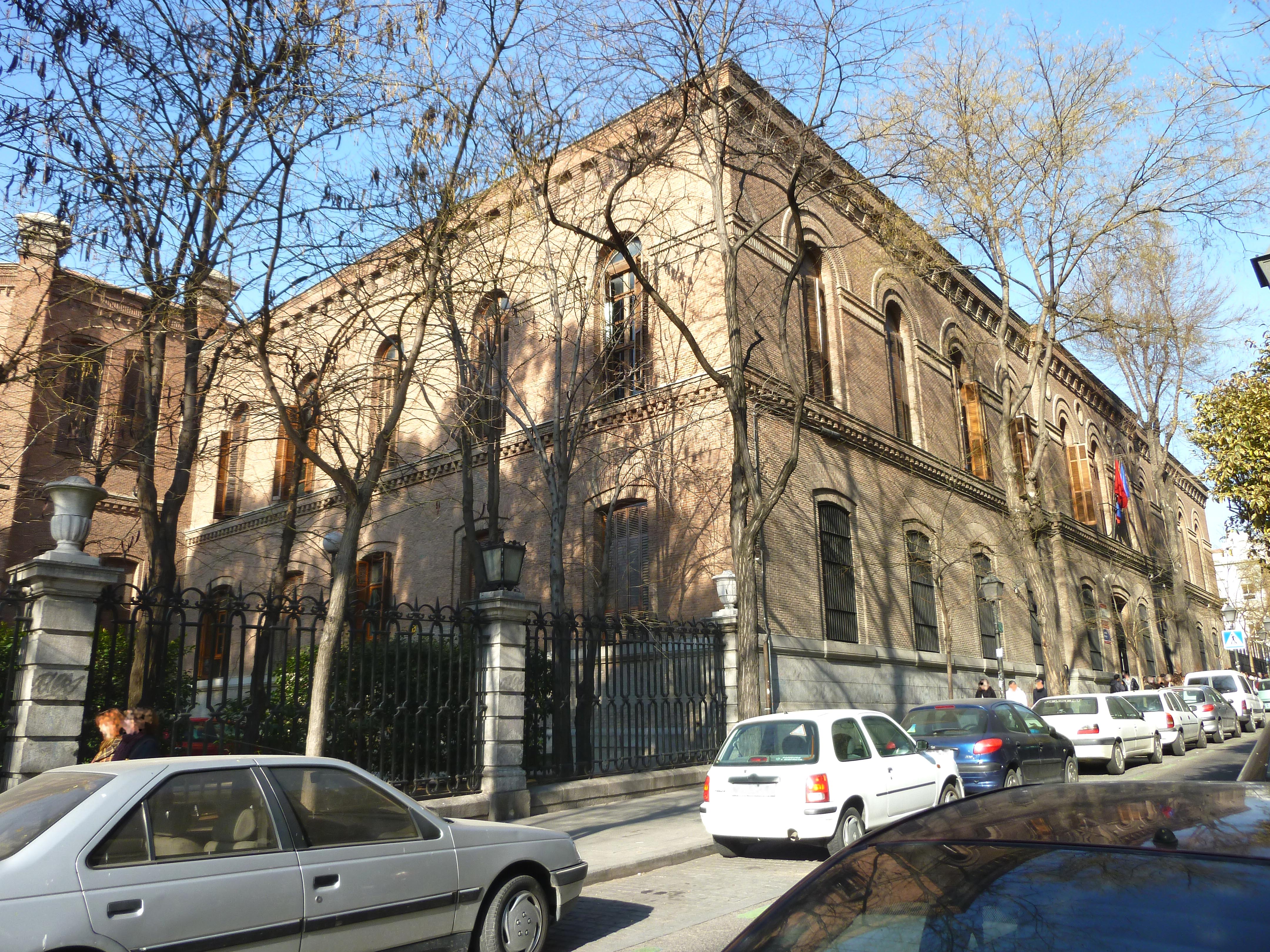 North-east façade of I.E.S. Cervantes (a secondary school) in Madrid (Spain).